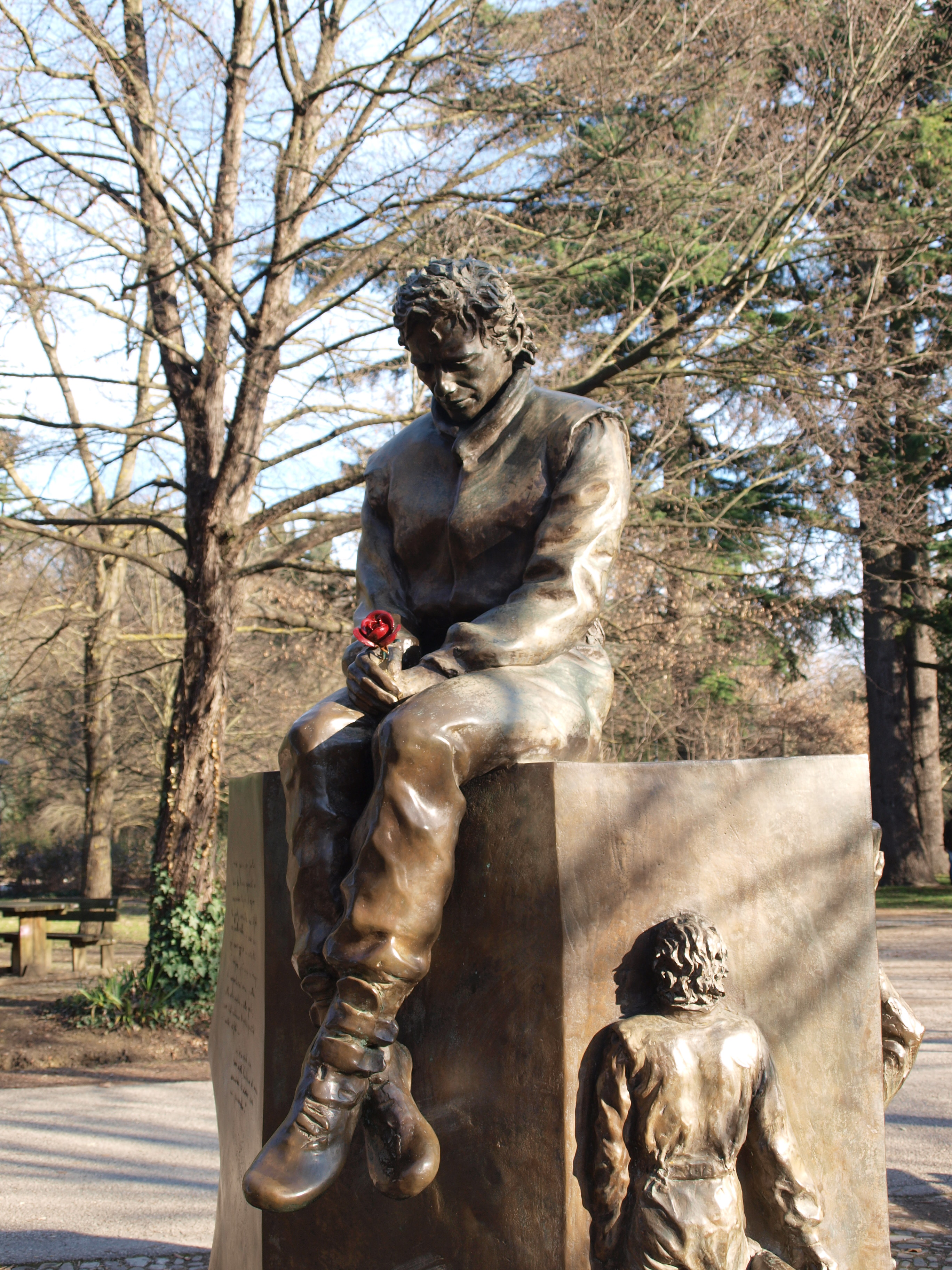 This is a photo of a monument which is part of cultural heritage of Italy.